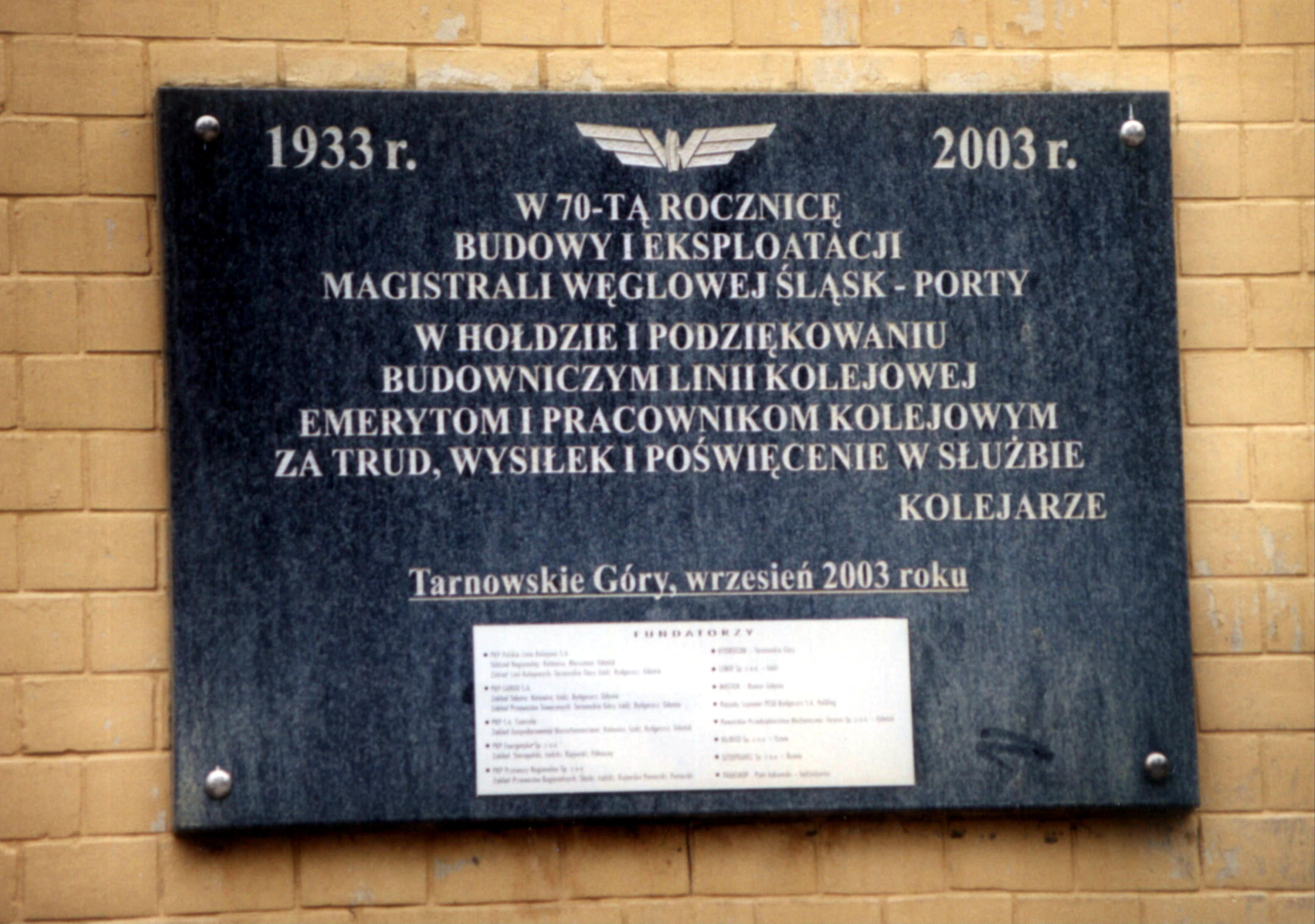 A plaque in memory of 70-year anniversary of construction of Coal-Trunk Line in Silesia, Poland. Tablet located in Tarnowskie Góry (PL).